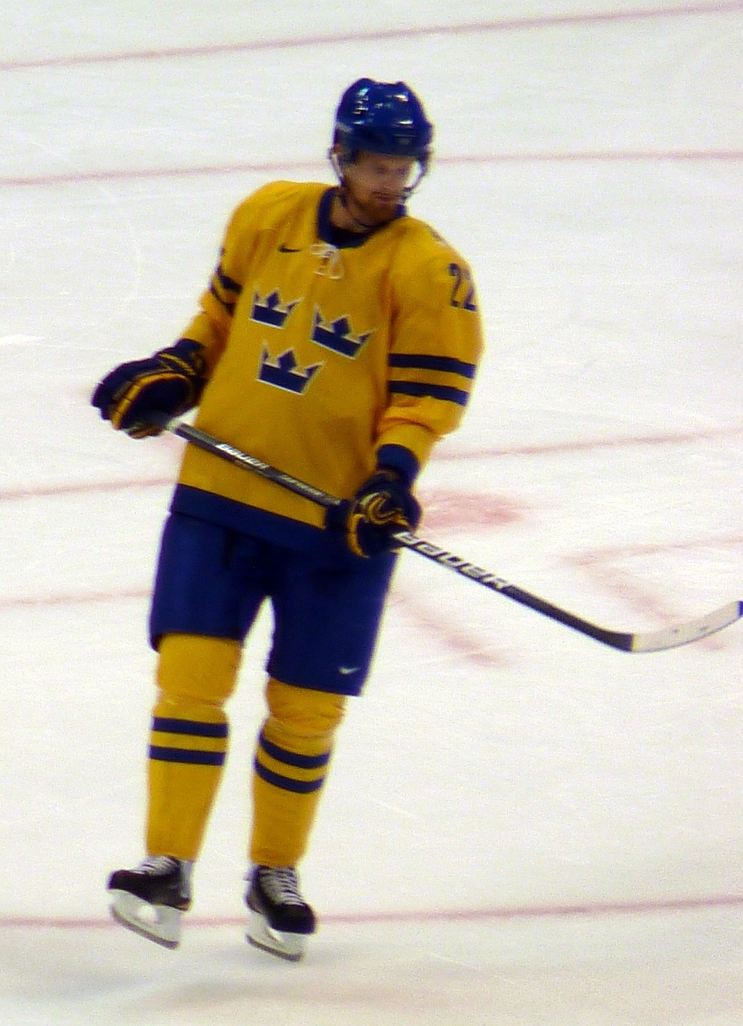 Swedish forward Daniel Sedin during the quarterfinal against Slovakia in the 2010 Winter Olympics.